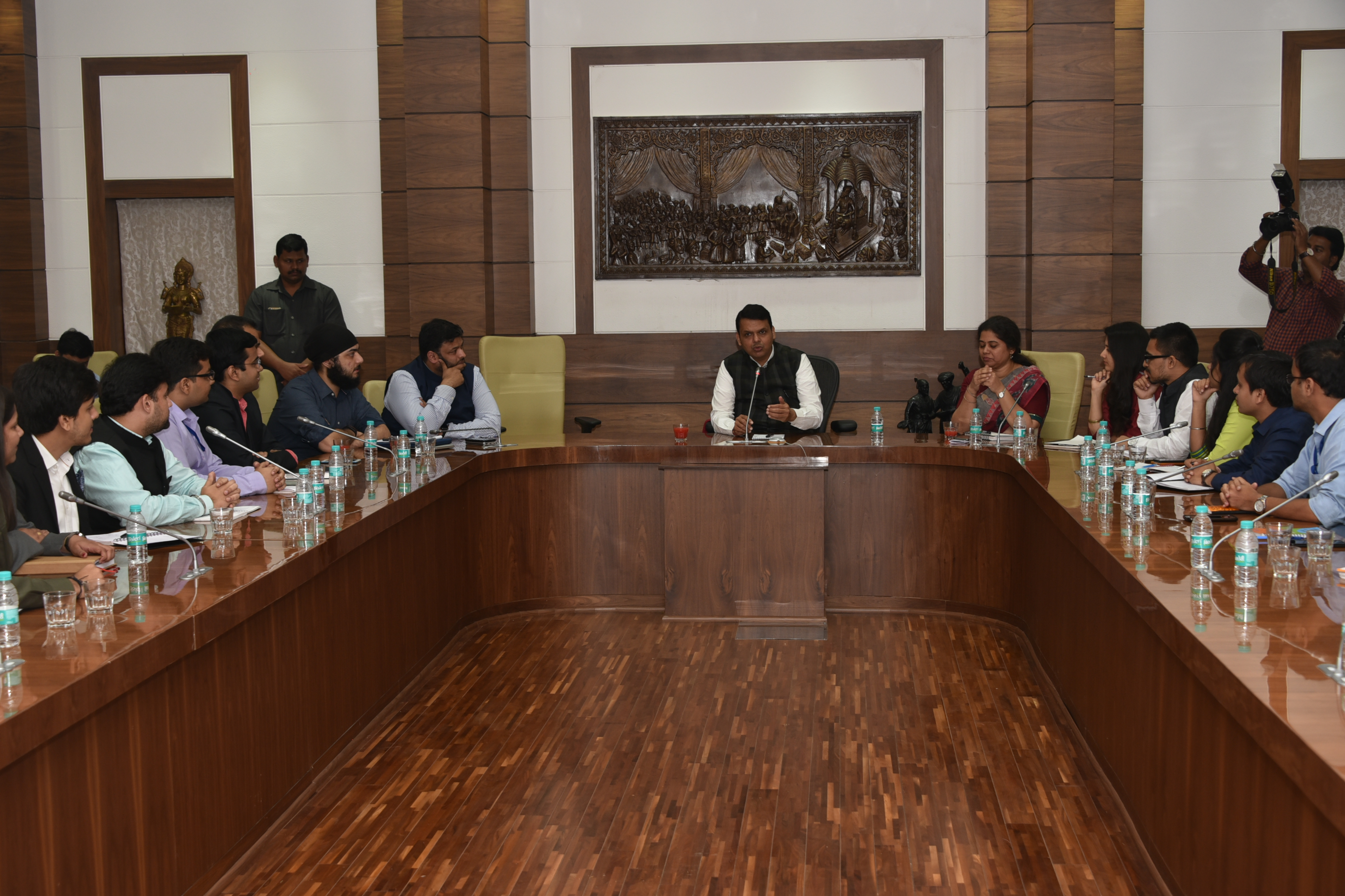 Chief Minister of Maharashtra interacting with the fellows.